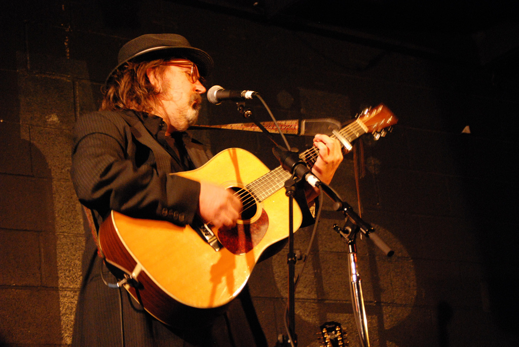 Peter Case at McCabe's, 2008-04-26